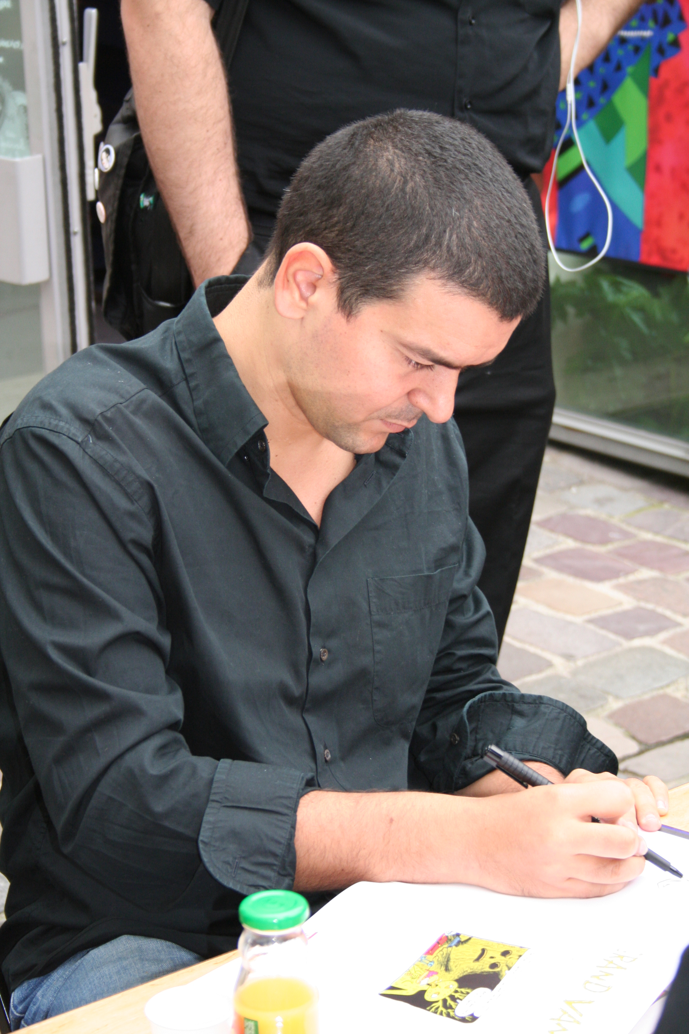 Autograph session with Joann Sfar at Delcourt festival 2006 (Paris, France).